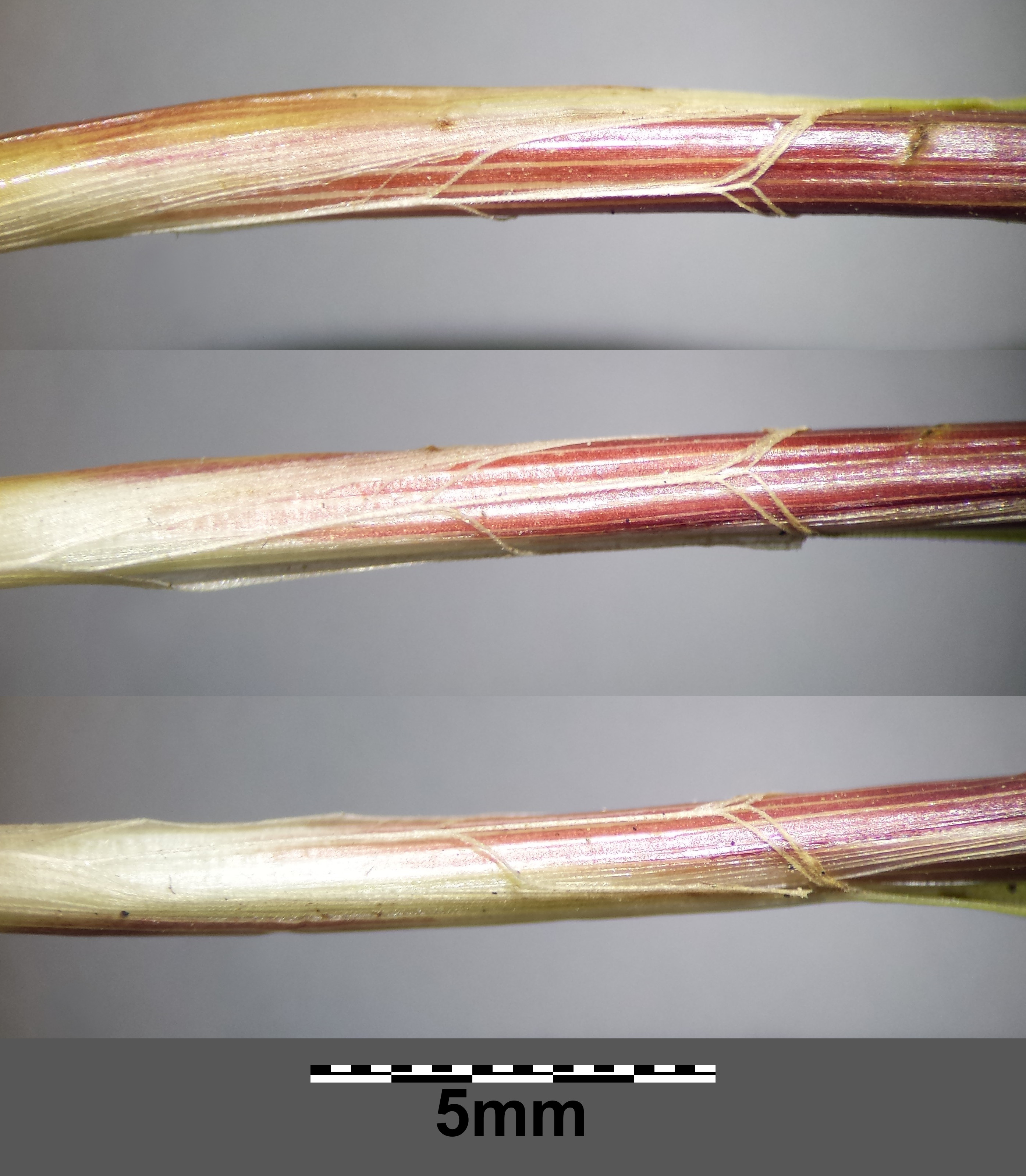 Fibrous, purple lower leaf sheath Taxonym: Carex montana ss Fischer et al. EfÖLS 2008 ISBN 978-3-85474-187-9 Location: Rohrwald, district Korneuburg, Lower Austria - ca. 320 m a.s.l. Habitat: Carpinion betuli